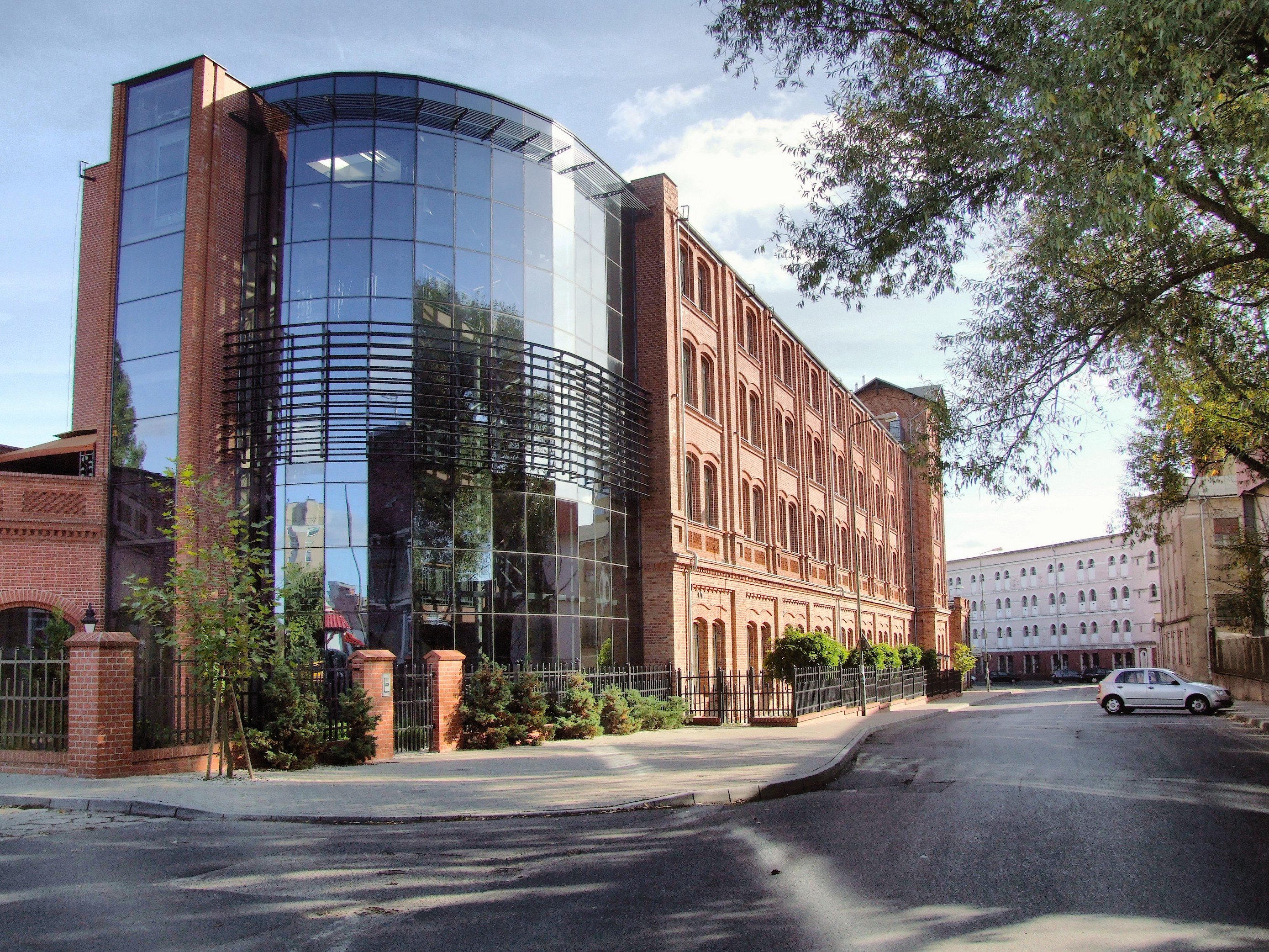 A former factory in Zielona Góra, now re-built as an apartment block. Fabryczna Street